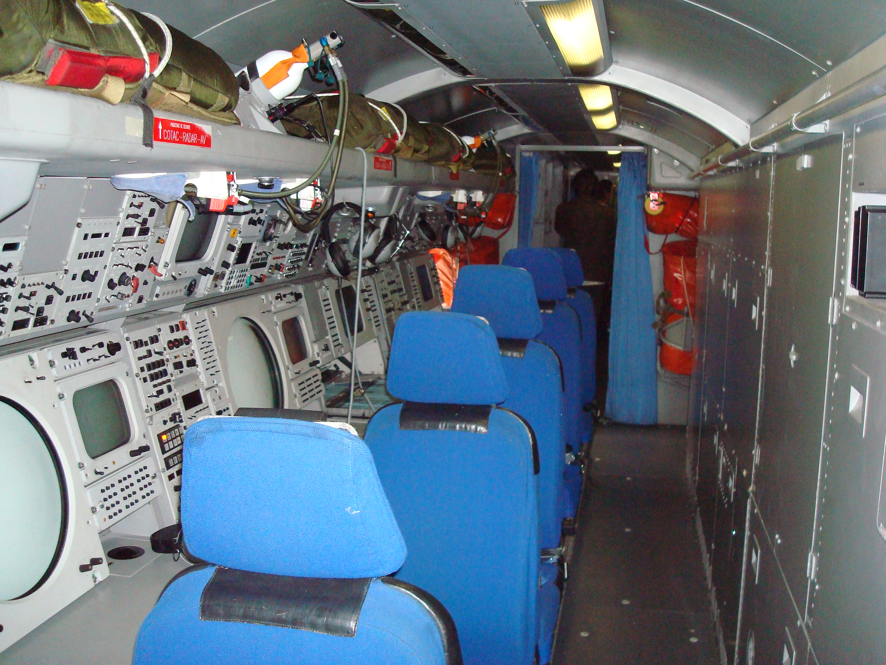 Picture of the interior desk of a breguet atlantic (french navy version)